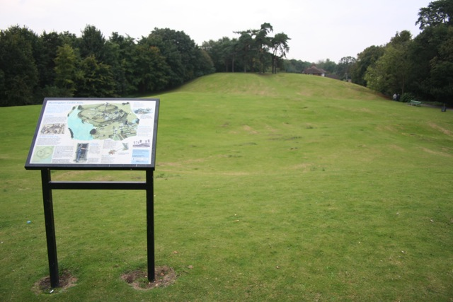 Castle Hills The display board shows that the mound was the site of a motte and bailey castle following the Norman invasion, and was used by Vikings before and in the Civil War later as a stronghold. The A14 flyover now runs perilously close to the south of the site (behind the trees on the left of this picture)